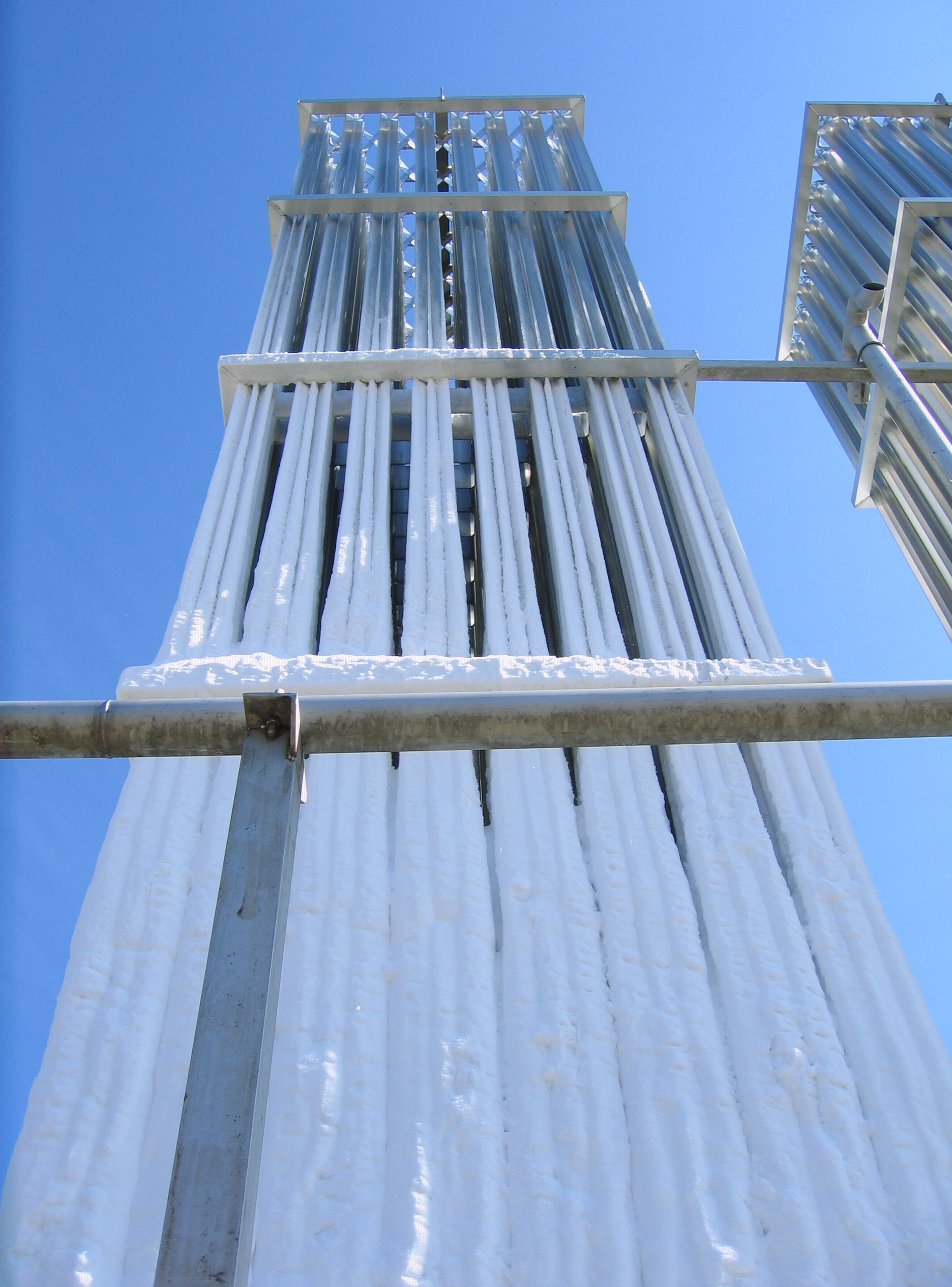 An icy aluminium LNG evaporator.